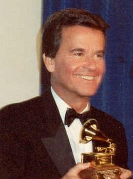 Dick Clark backstage during the Grammy Awards telecast 2/21/90